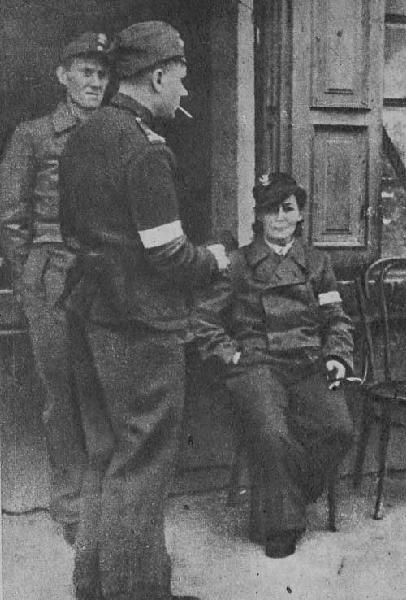 WarsawUprising: Commander of "Radosław" Regiment, and Kedyw Colonel . Jan Mazurkiewicz "Radosław" (standing sideways) in Wola district. Sitting on the chair is his wife capitan Anna Mazurkiewicz "Irma" – commandant of liaison officers.